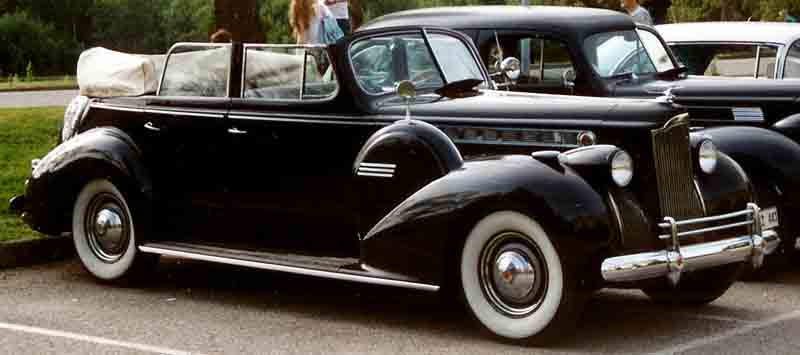 Packard Eighteenth Series Super Eight One-Sixty 1803 1377 Convertible Sedan 1940